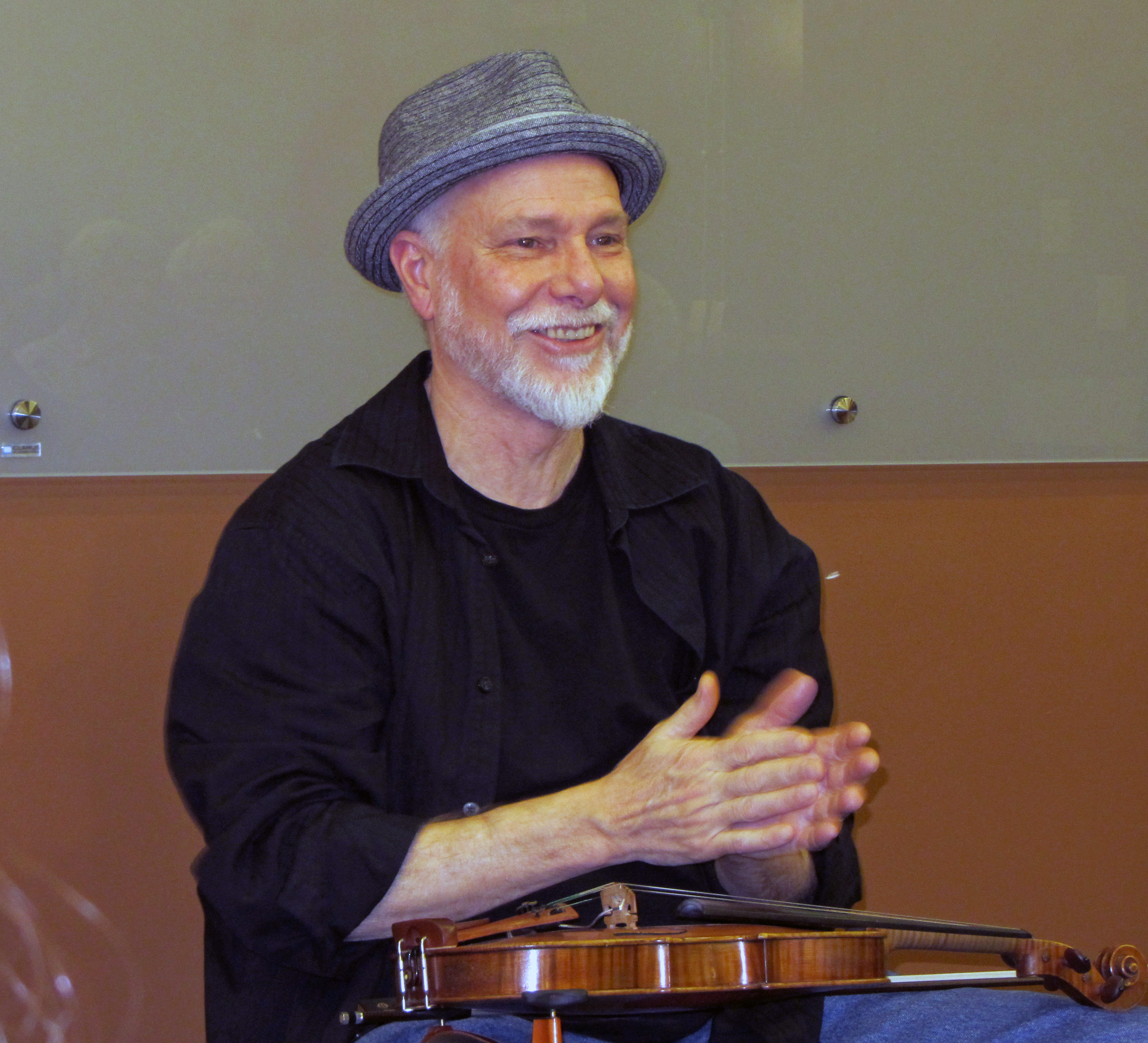 David Greely is an outstanding musician and speaker.